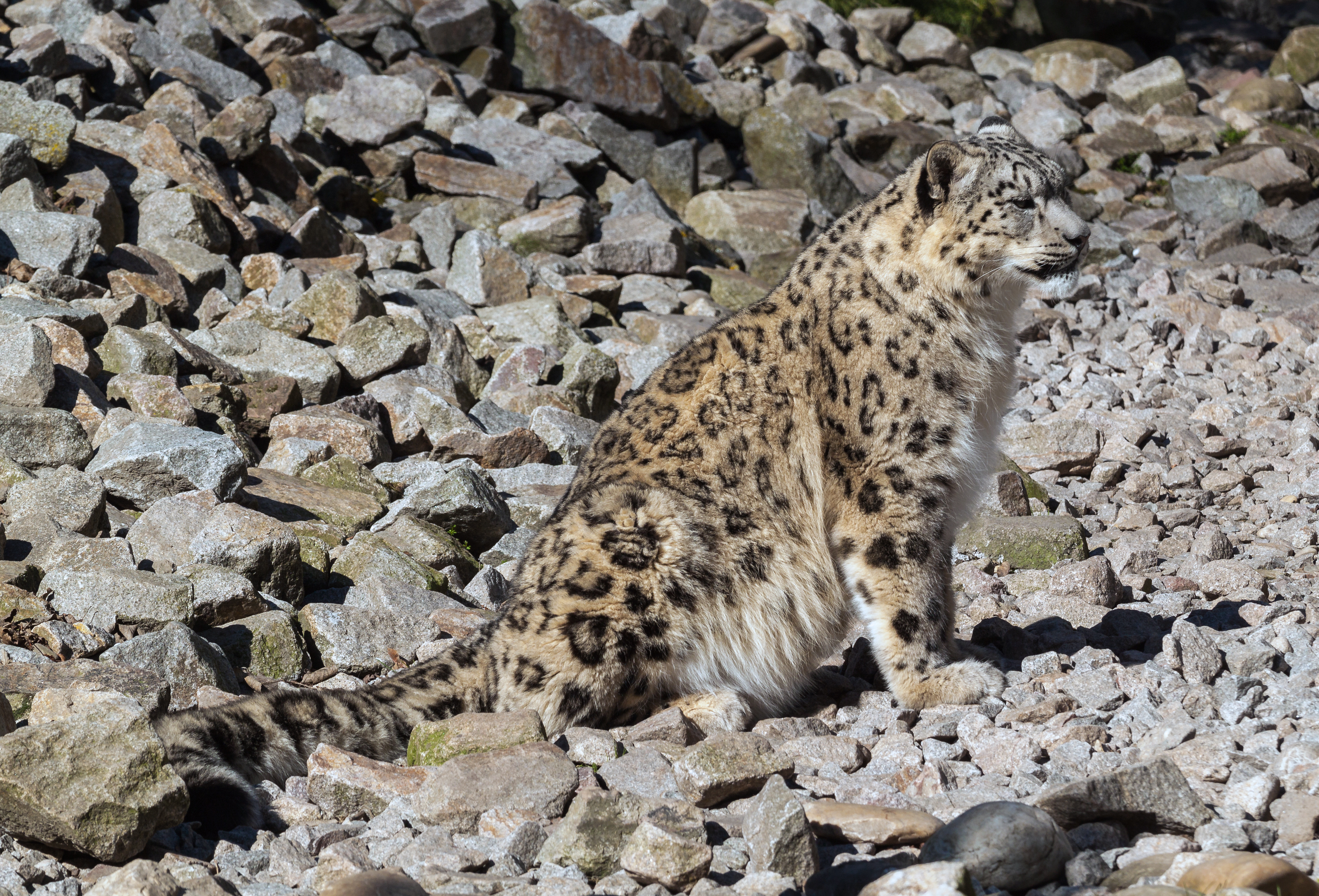 Panthera uncia (Schreber, 1775), Snow Leopard; Zoologischer Stadtgarten Karlsruhe, Karlsruhe, Germany.